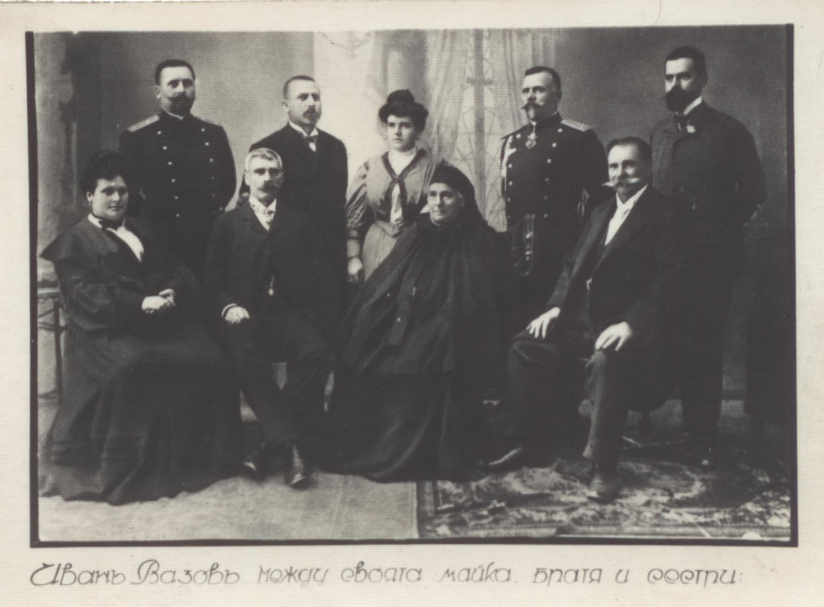 Ivan Vazov with his mother, brothers and sisters